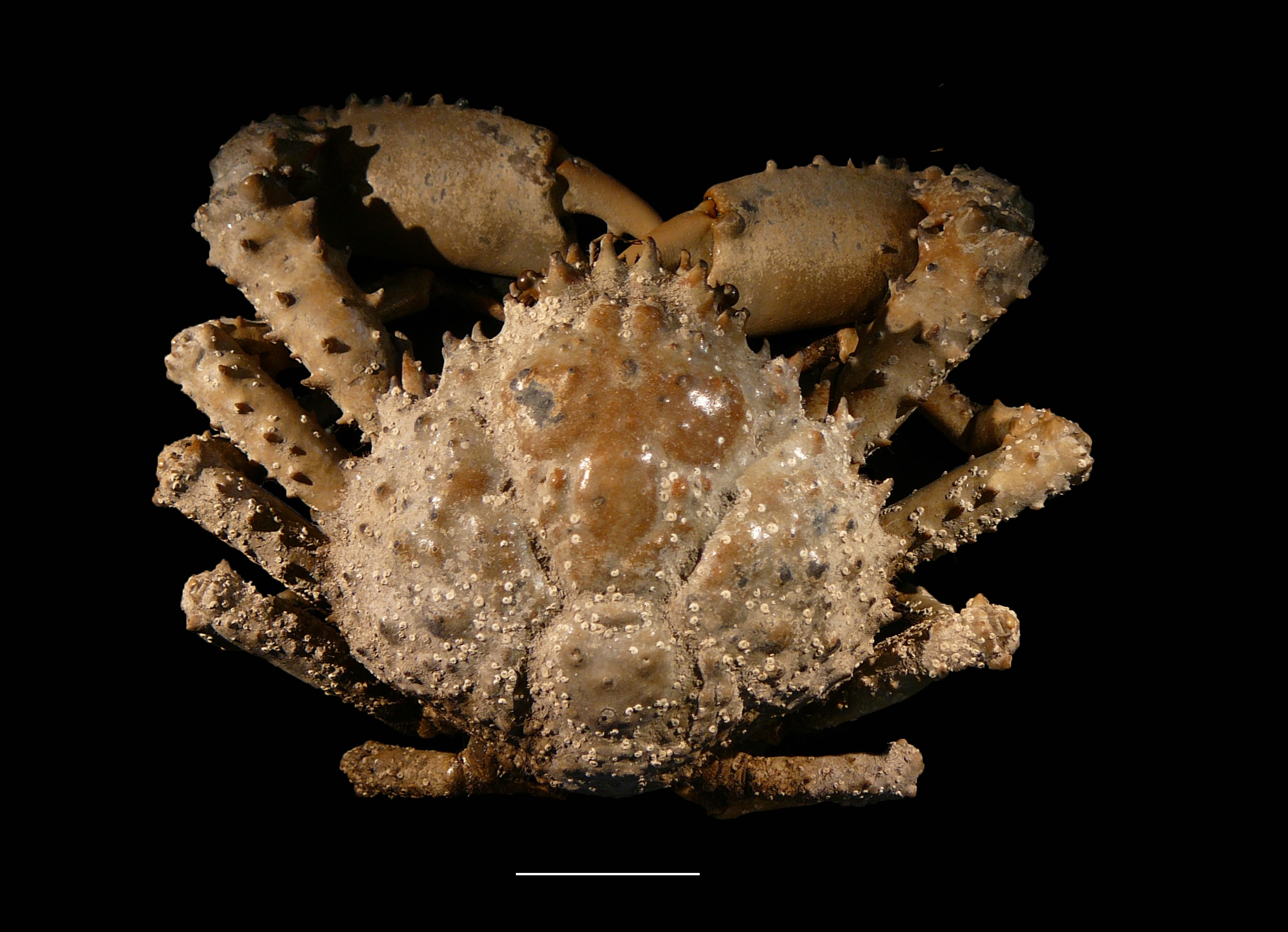 Dorsal view of male of Maguimithrax spinosissimus from Florida, USA. Scale bar width = 30 mm